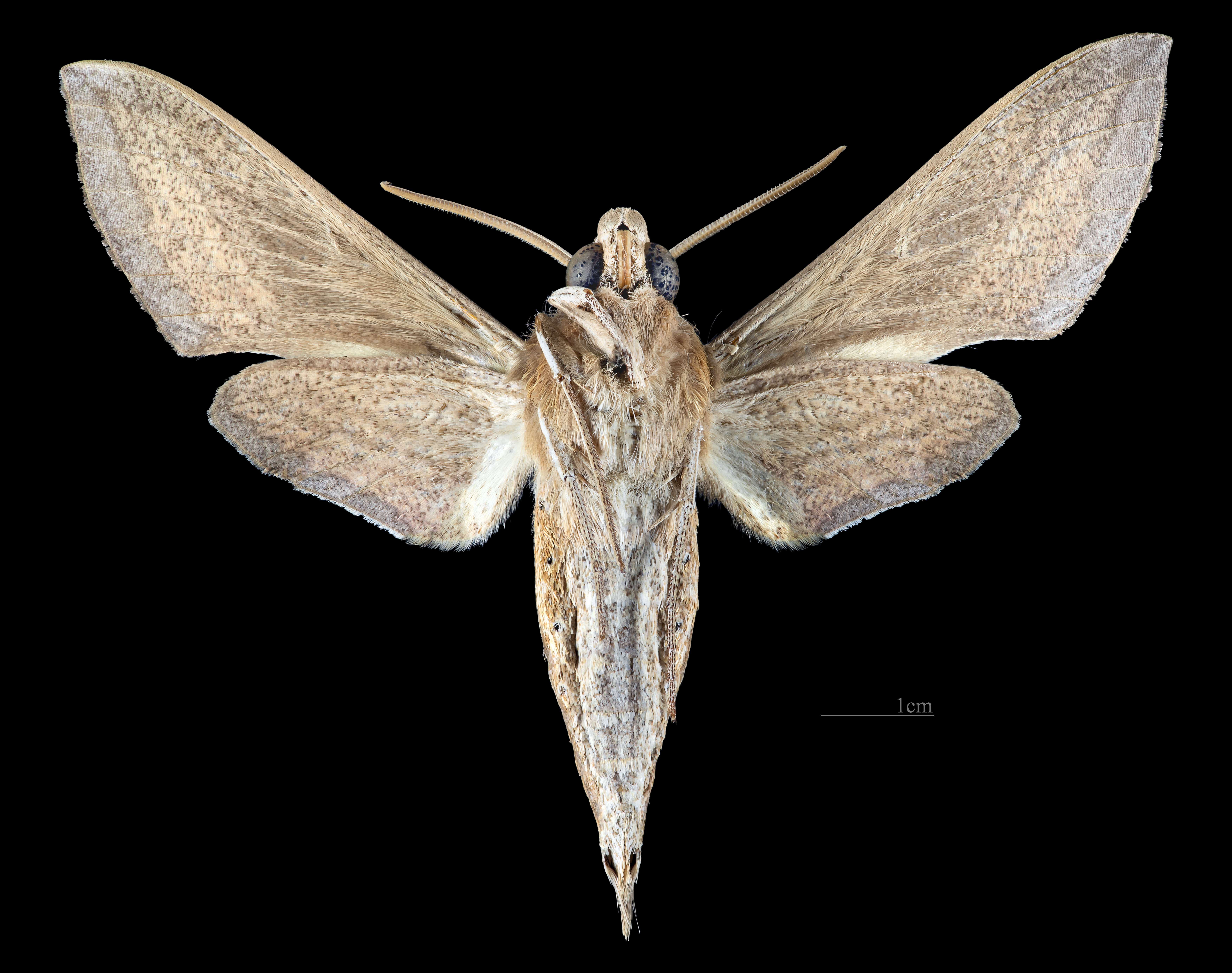 Theretra margarita - △ Ventral side Collection of the Mathematician Laurent Schwartz